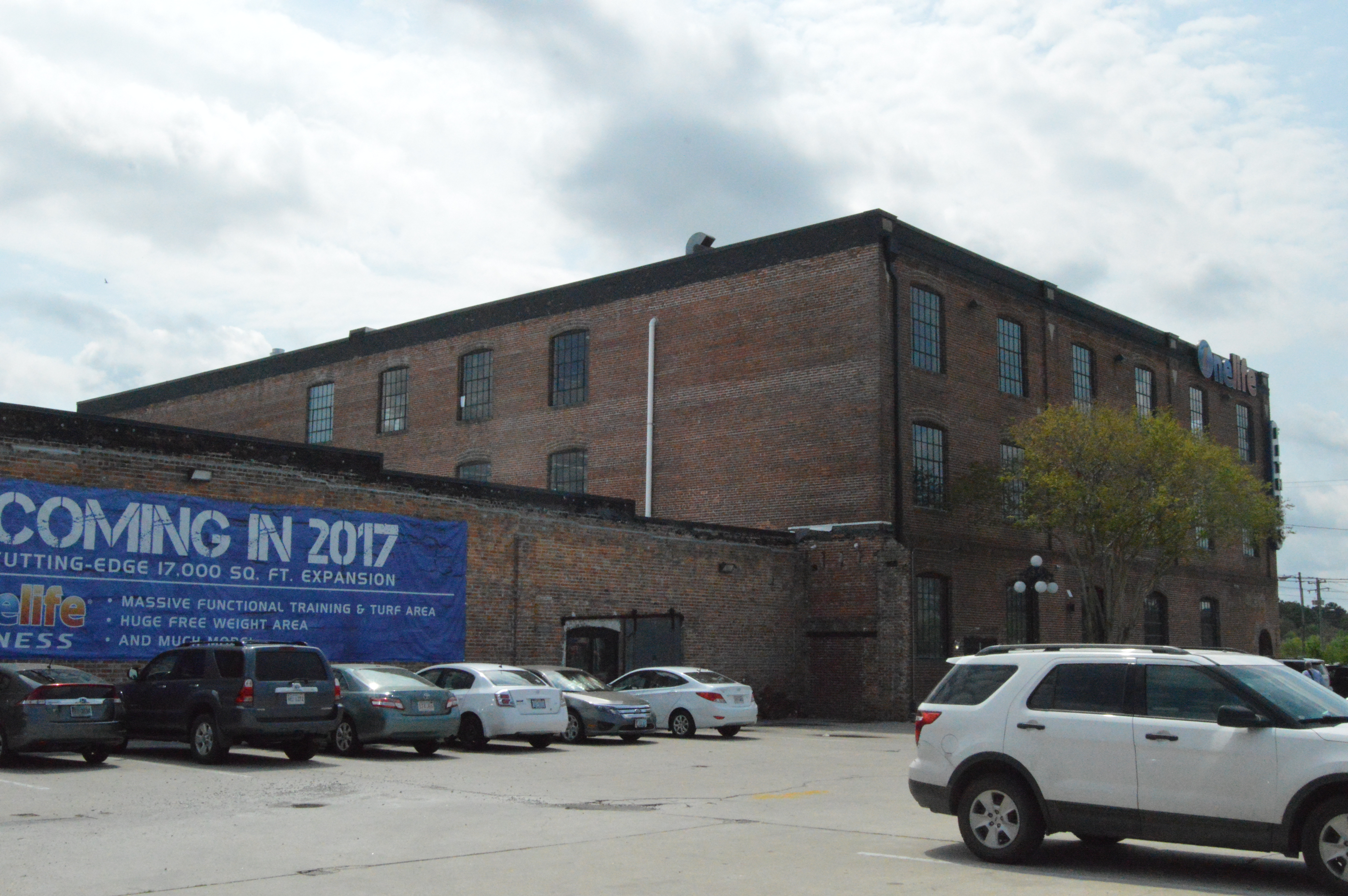 Front and northern side of the Southern Bagging Company building, located at 1900 Monticello Avenue in Norfolk, Virginia, United States. Built in 1918, it is listed on the National Register of Historic Places, and it is part of a Register-listed historic district, the Williamston-Woodland Historic District.